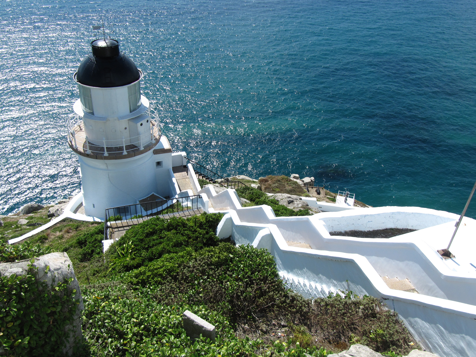 Tung-yin Tao (Dongyin Dao) lighthouse, Dongyin Township, Lienchiang County, Fujian Province, Republic of China (Taiwan).